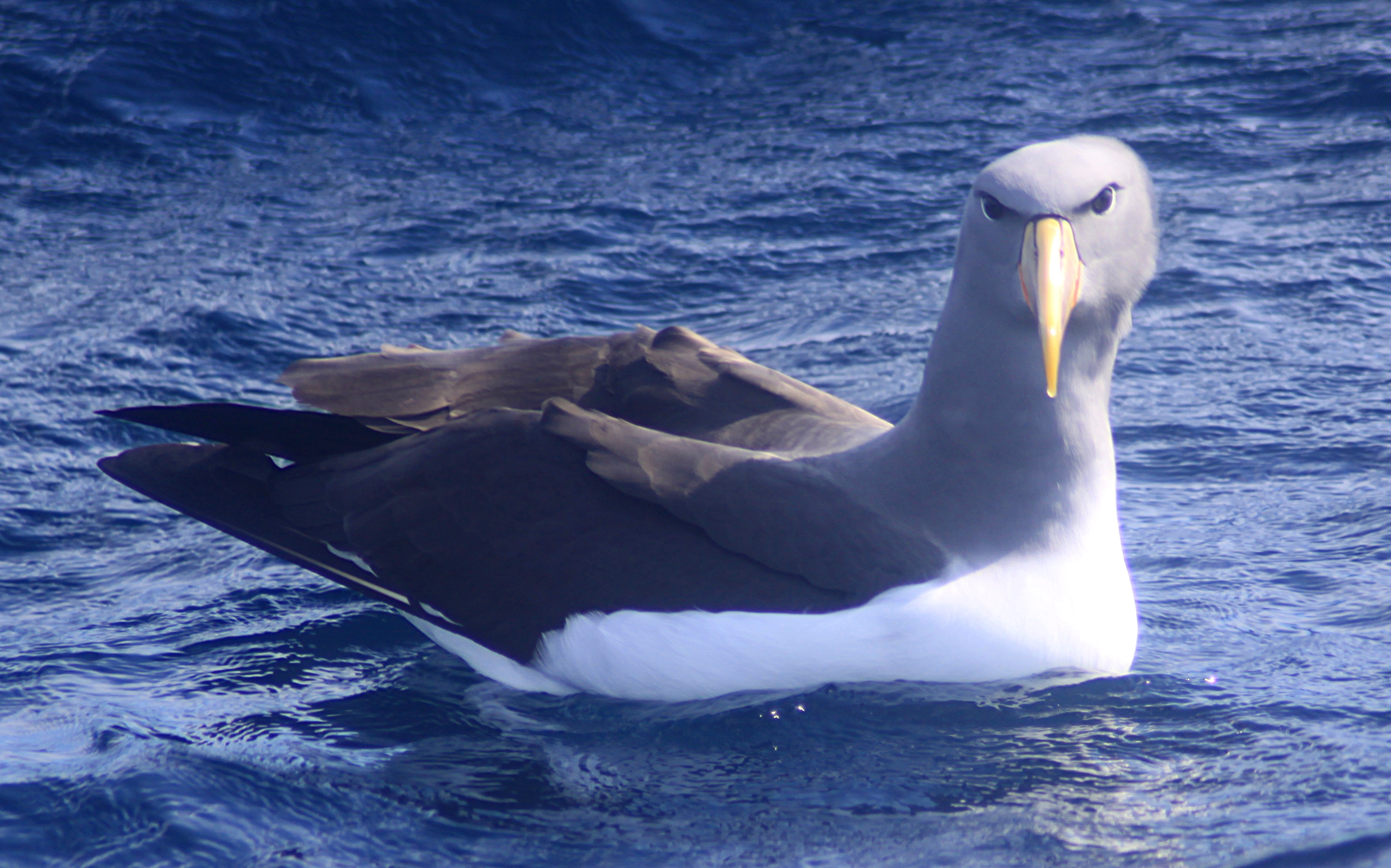 Chatham Albatross (Thalassarche eremita). Photographed off Eaglehawk Neck, Tasmania on pelagic birding trip, 3rd of September, 2011